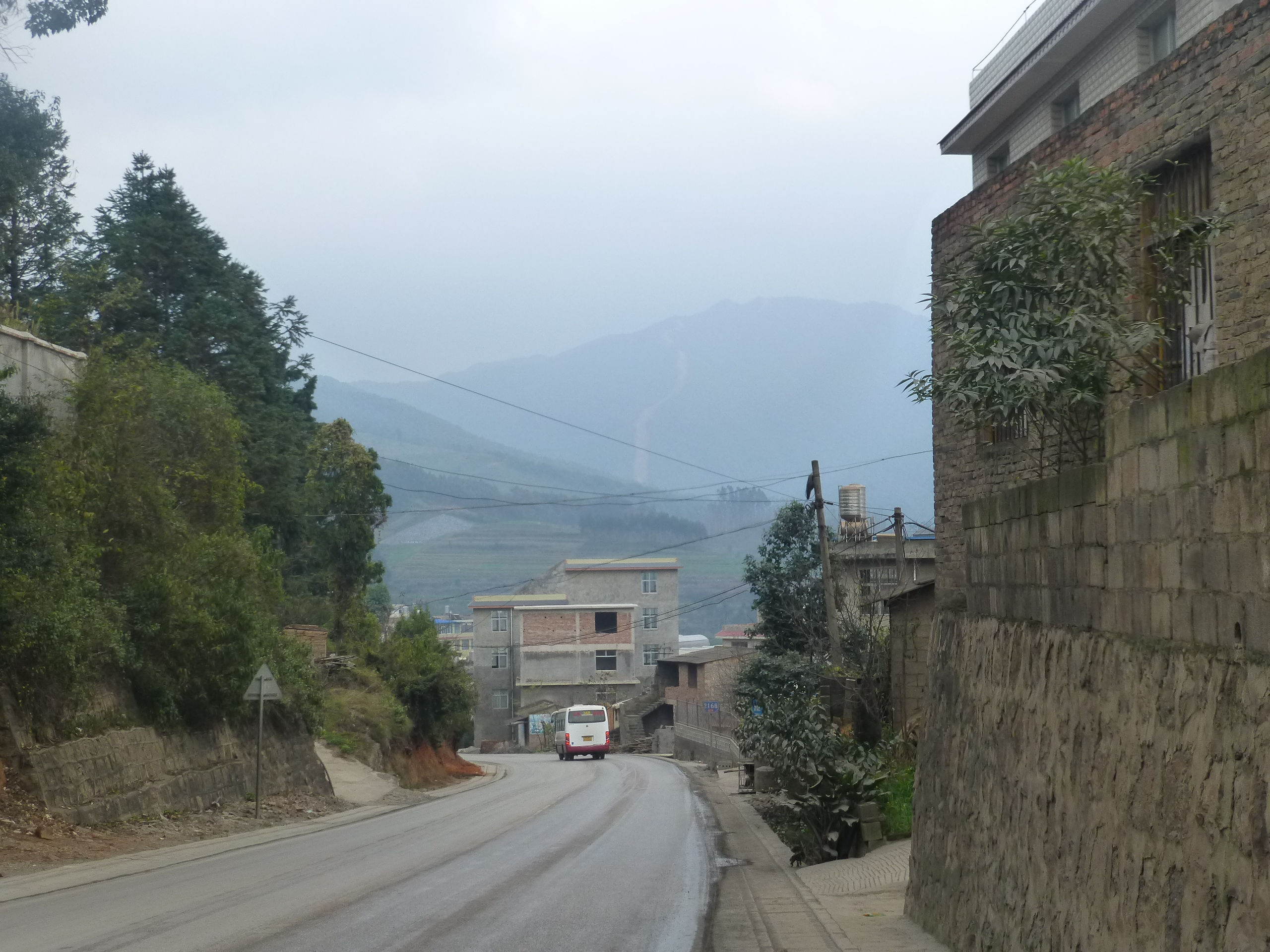 China National Hwy 213 in the northern part of Hongta District, Yuxi